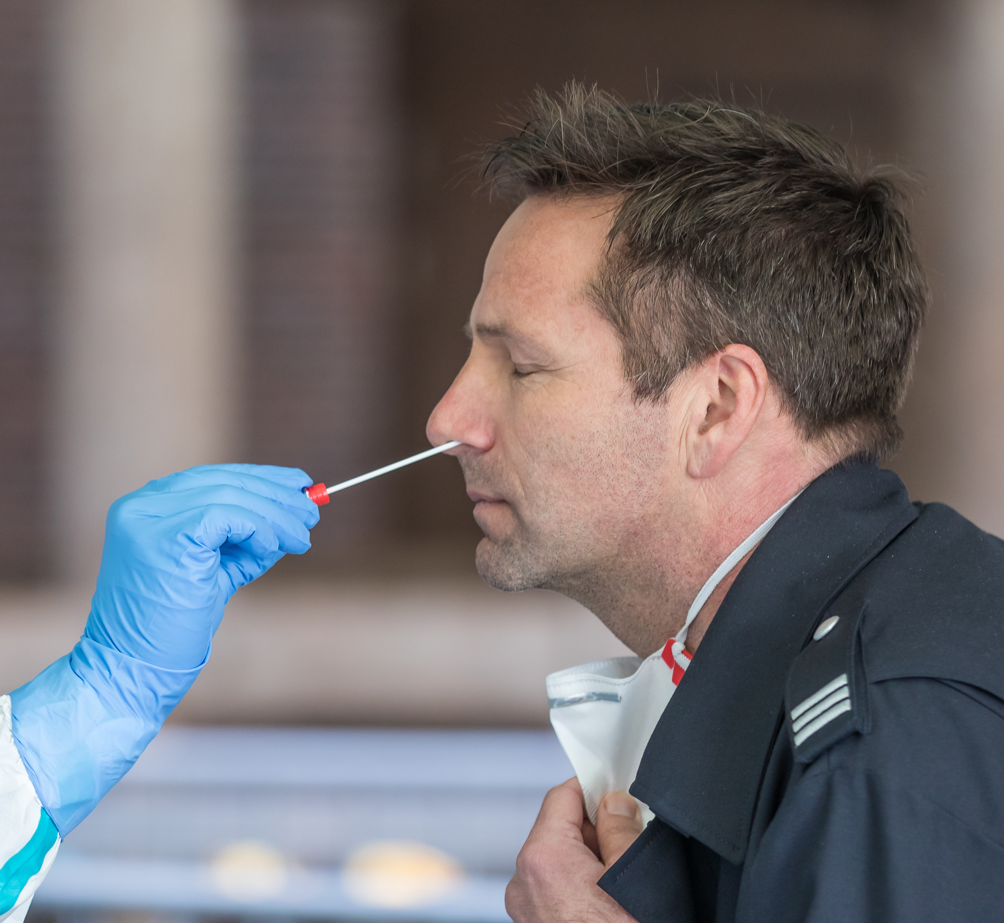 A nasopharyngeal swab being used to test for SARS-CoV-2 virus and the associated COVID-19 illness.